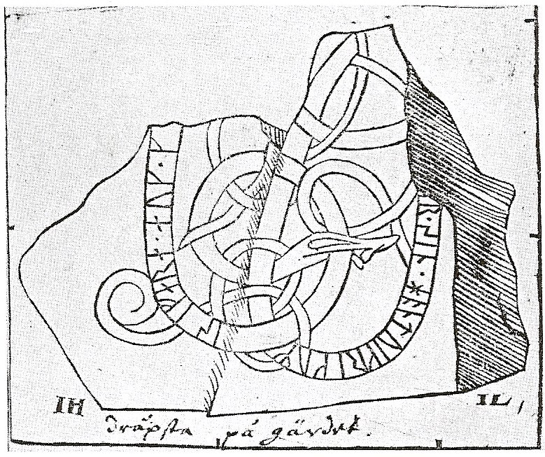 Drawing of runestone U 446 by J. Hadorph and J. Leitz in Peringskiöld's Monumenta and B 172. Former location of the stone.